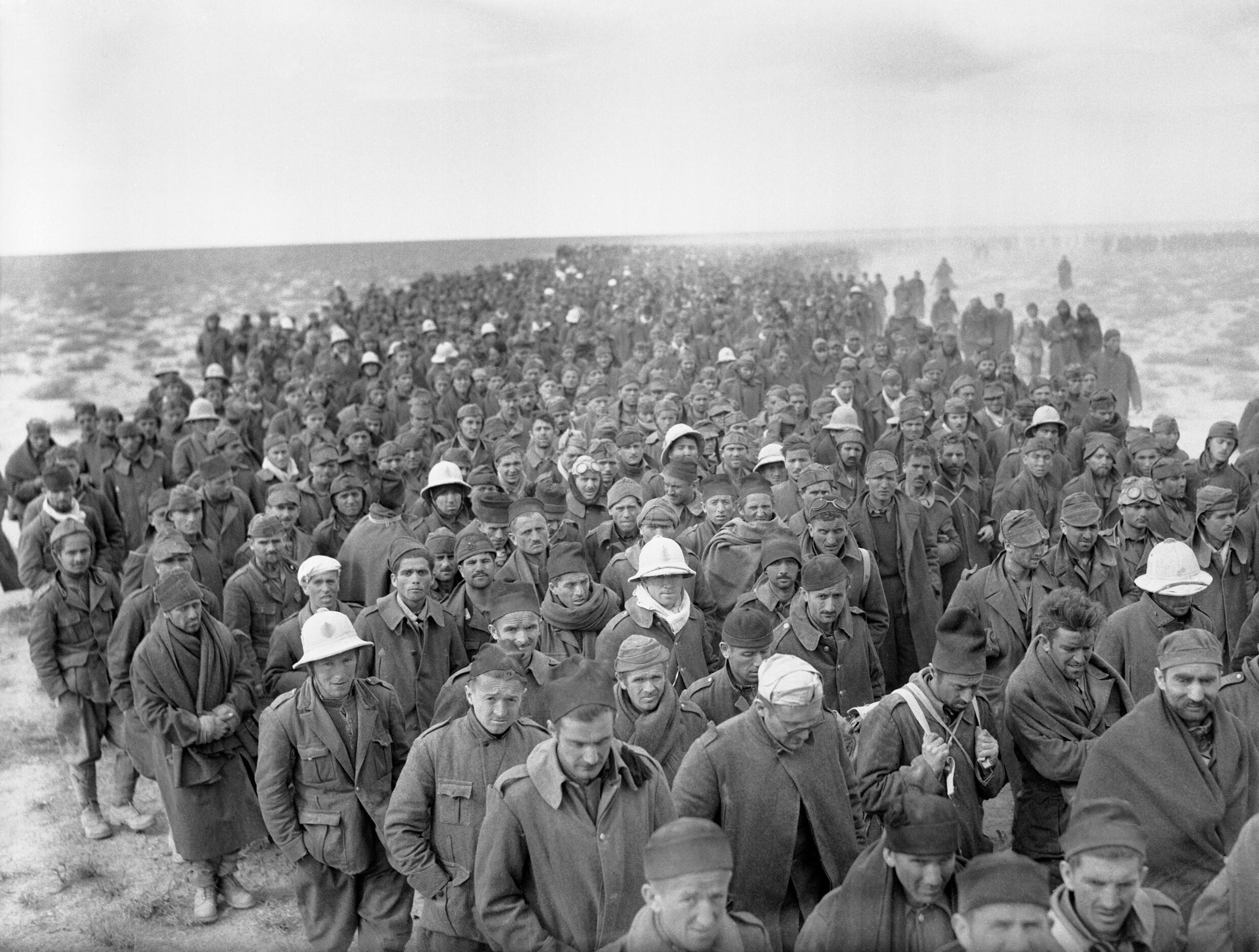 A column of Italian prisoners captured during the assault on Bardia, Libya, march to a British army base on 6 January 1941.